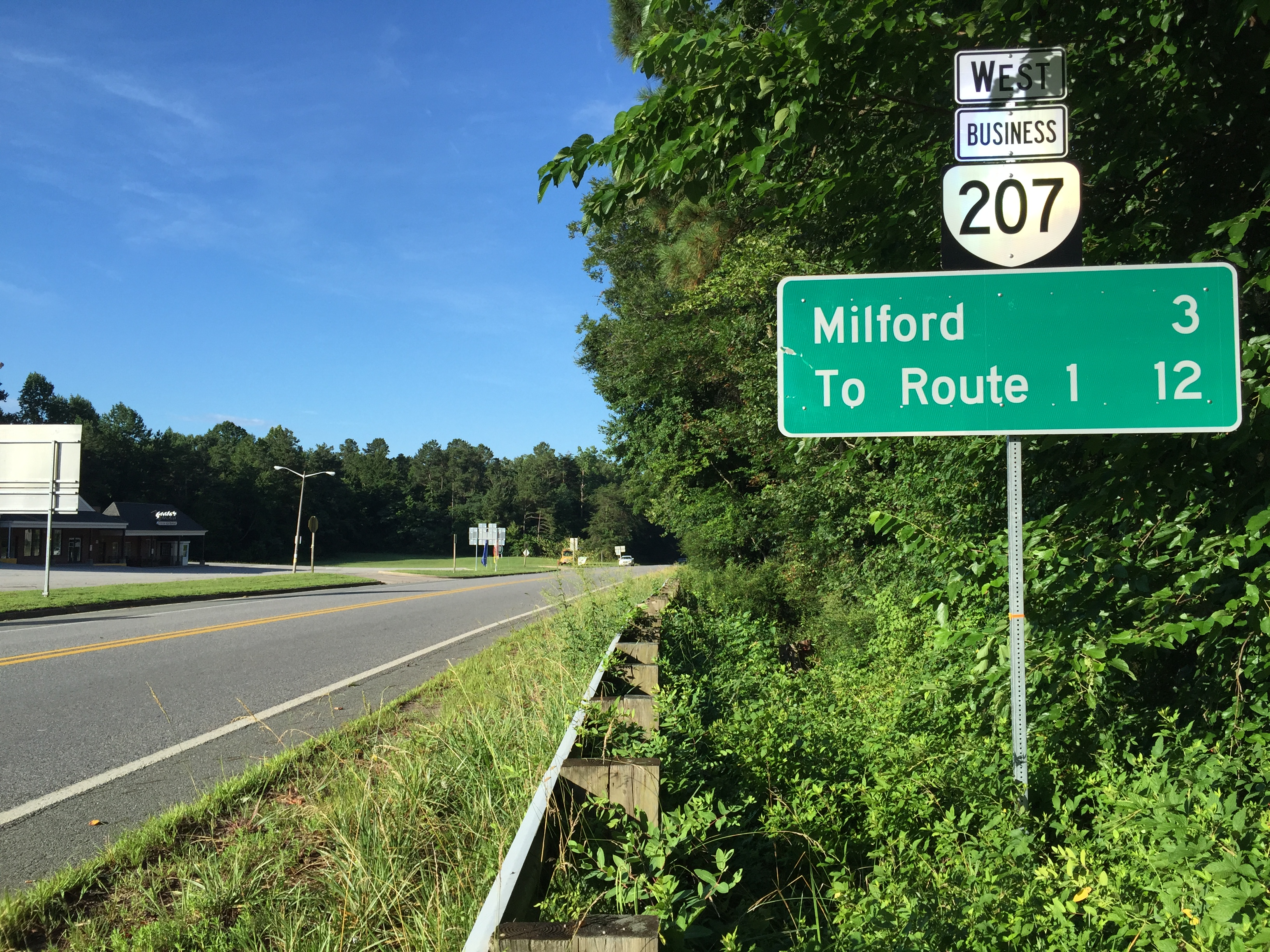 View west along Virginia State Route 207 Business (Broaddus Avenue) at U.S. Route 301 Business and Virginia State Route 2 (Main Street) in Bowling Green, Caroline County, Virginia